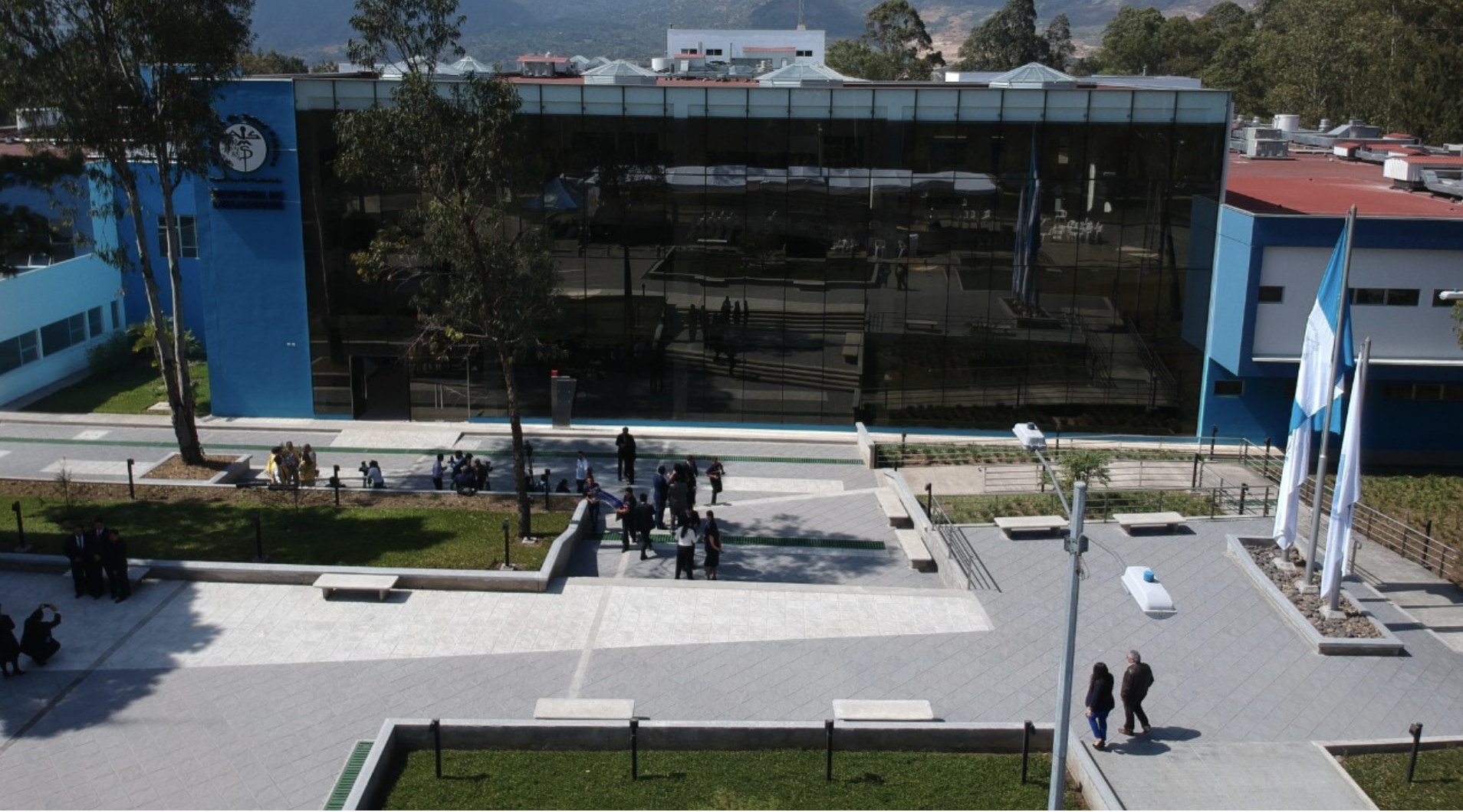 National Hospital in zona 10 Villa Nueva City, Guatemala